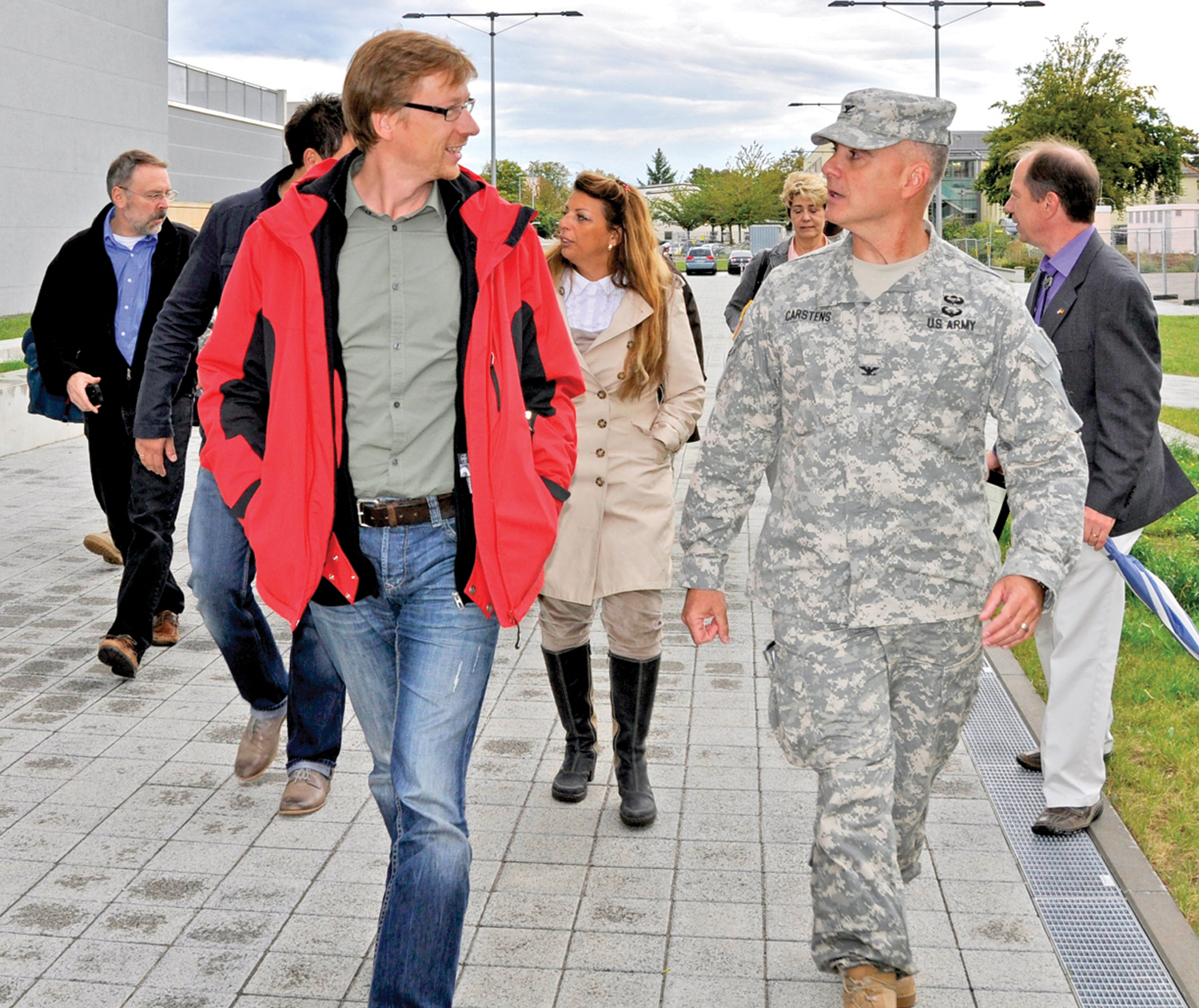 Roman Twardy, a music teacher at the Oranien Schule, talks with U.S. Army Garrison Wiesbaden commander Col. David Carstens during a teacher orientation Sept. 20 on Clay Kaserne. Photo Credit: Wendy Brown (U.S. Army Garrison Wiesbaden Public Affairs Office)